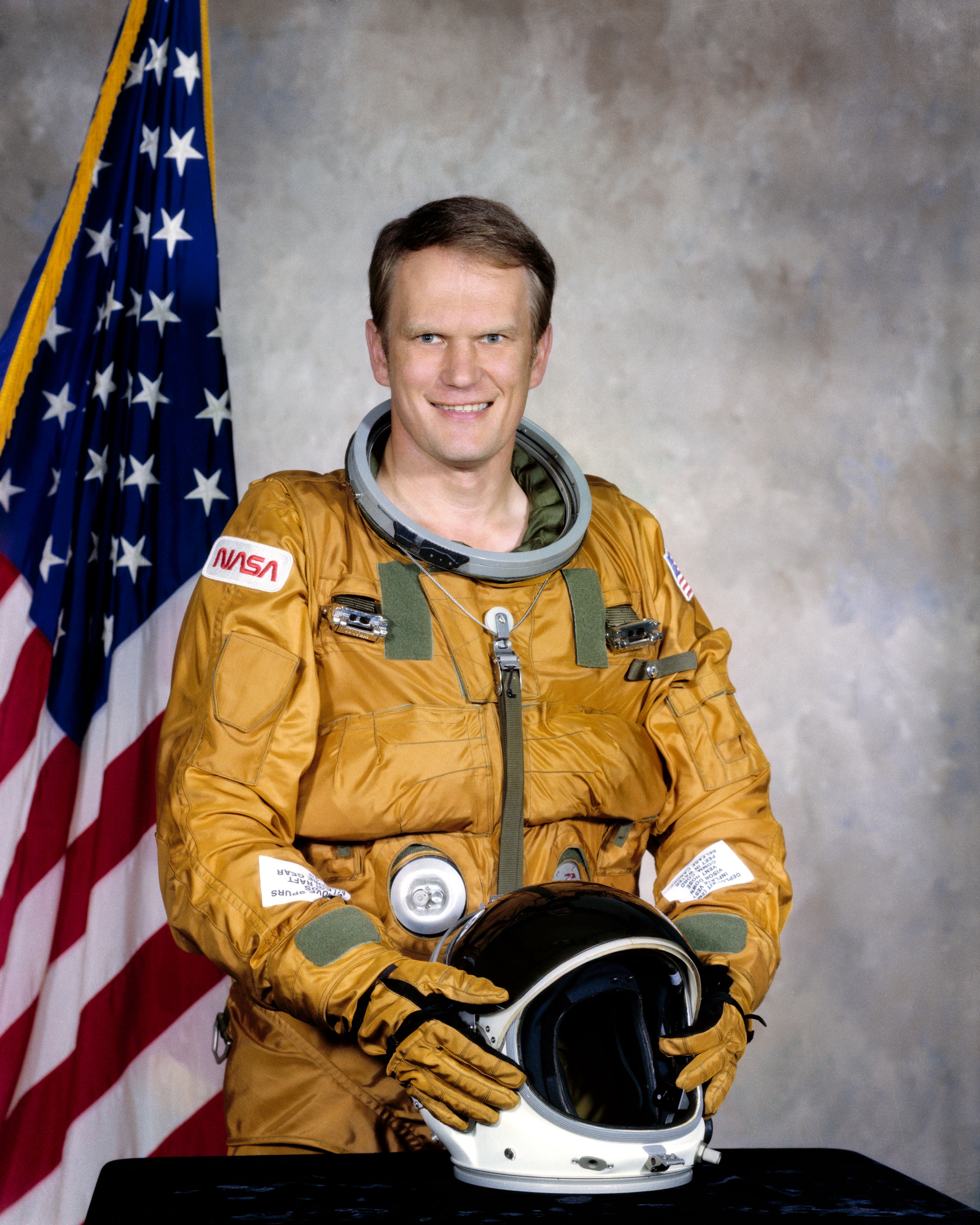 US Astronaut Karol Bokbo